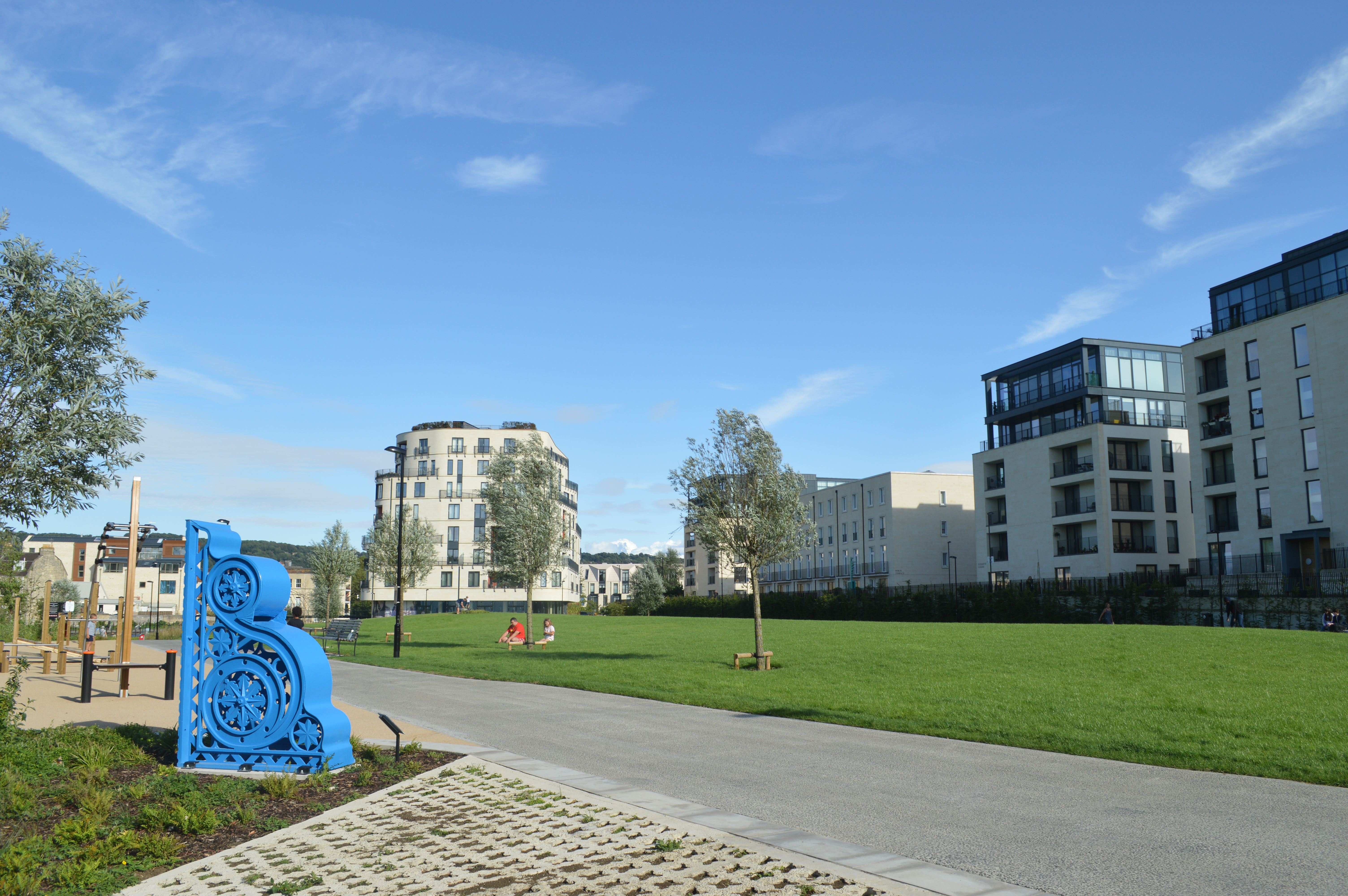 Elizabeth Park, Western Riverside, Bath, officially opened on 26 July 2019. Royal View apartments are central left in photo.[1]